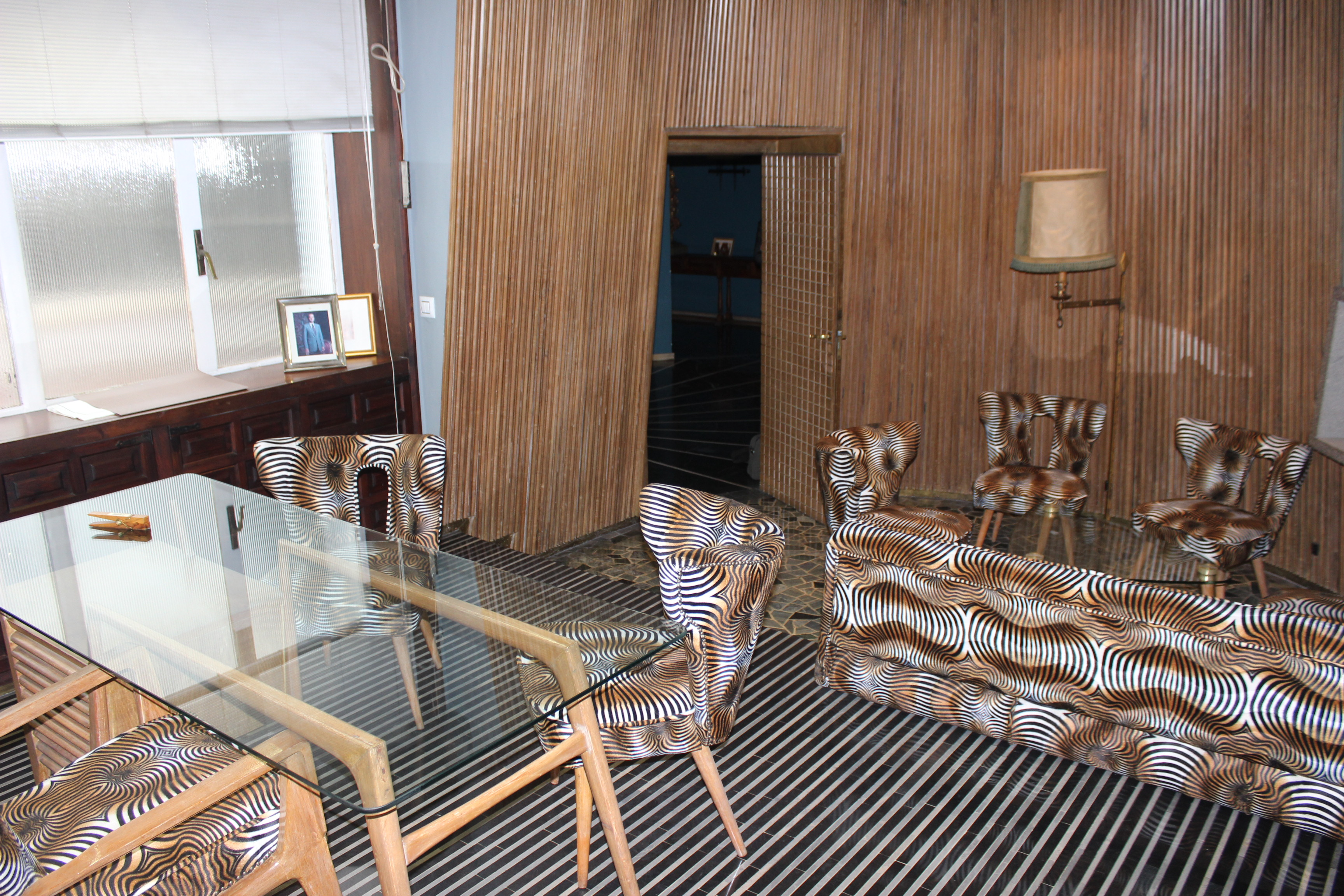 Interior View Chamber of Commerce office chair